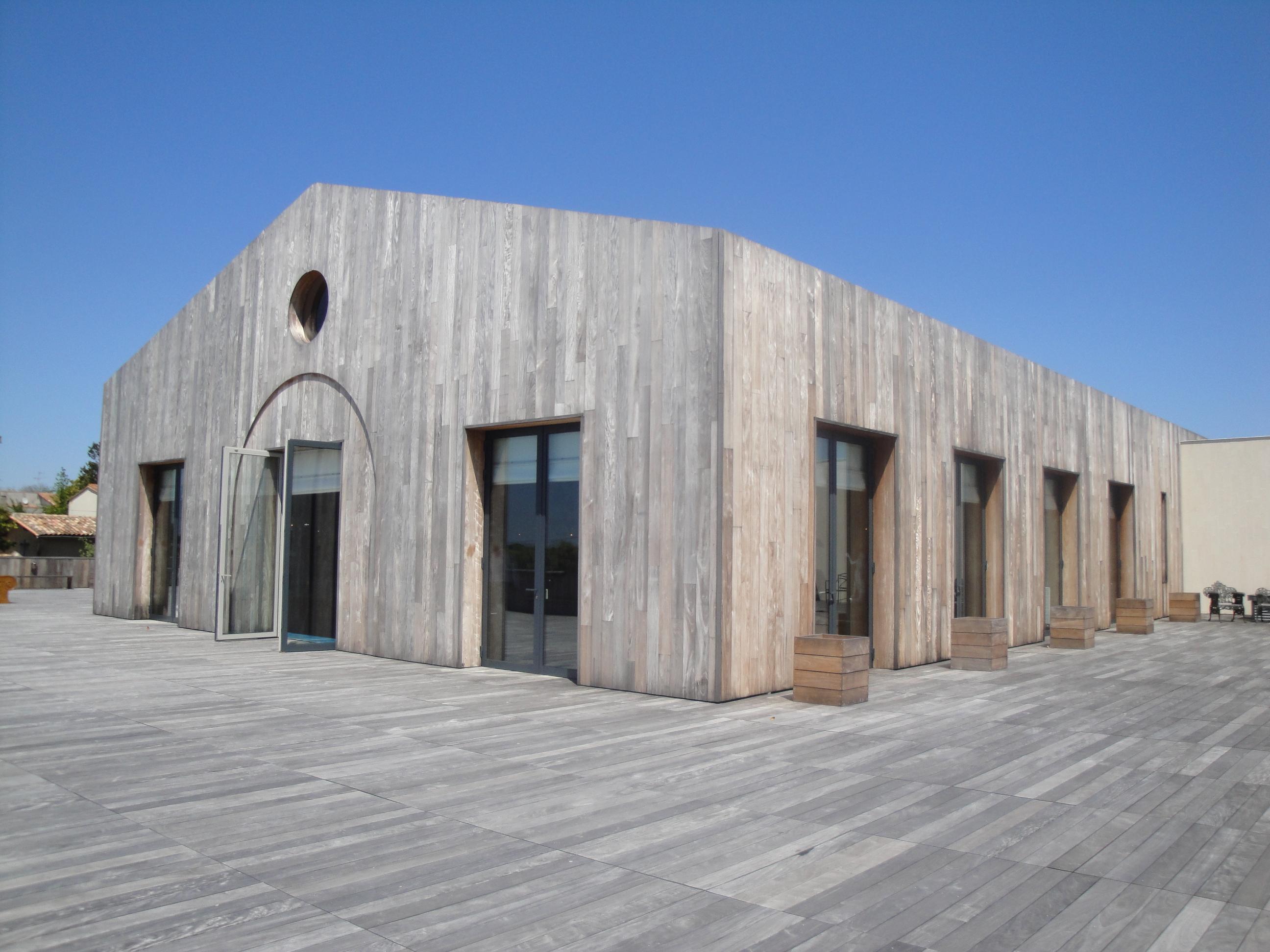 Terrace of the new winery buidling at Château Clerc Milon in Pauillac, Bordeaux.